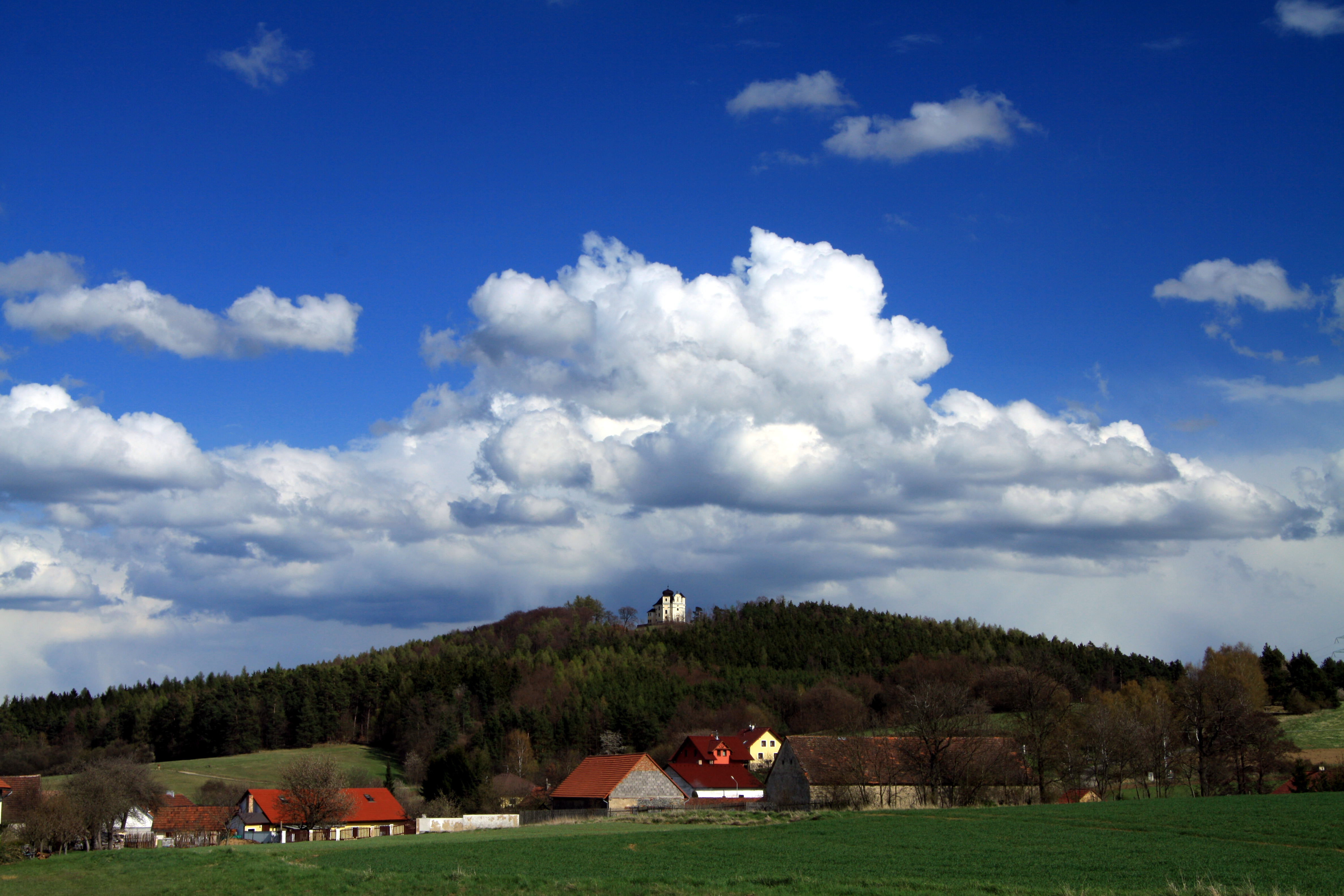 View to Smolotely village and Maková hora in Příbram District, Czech Republic